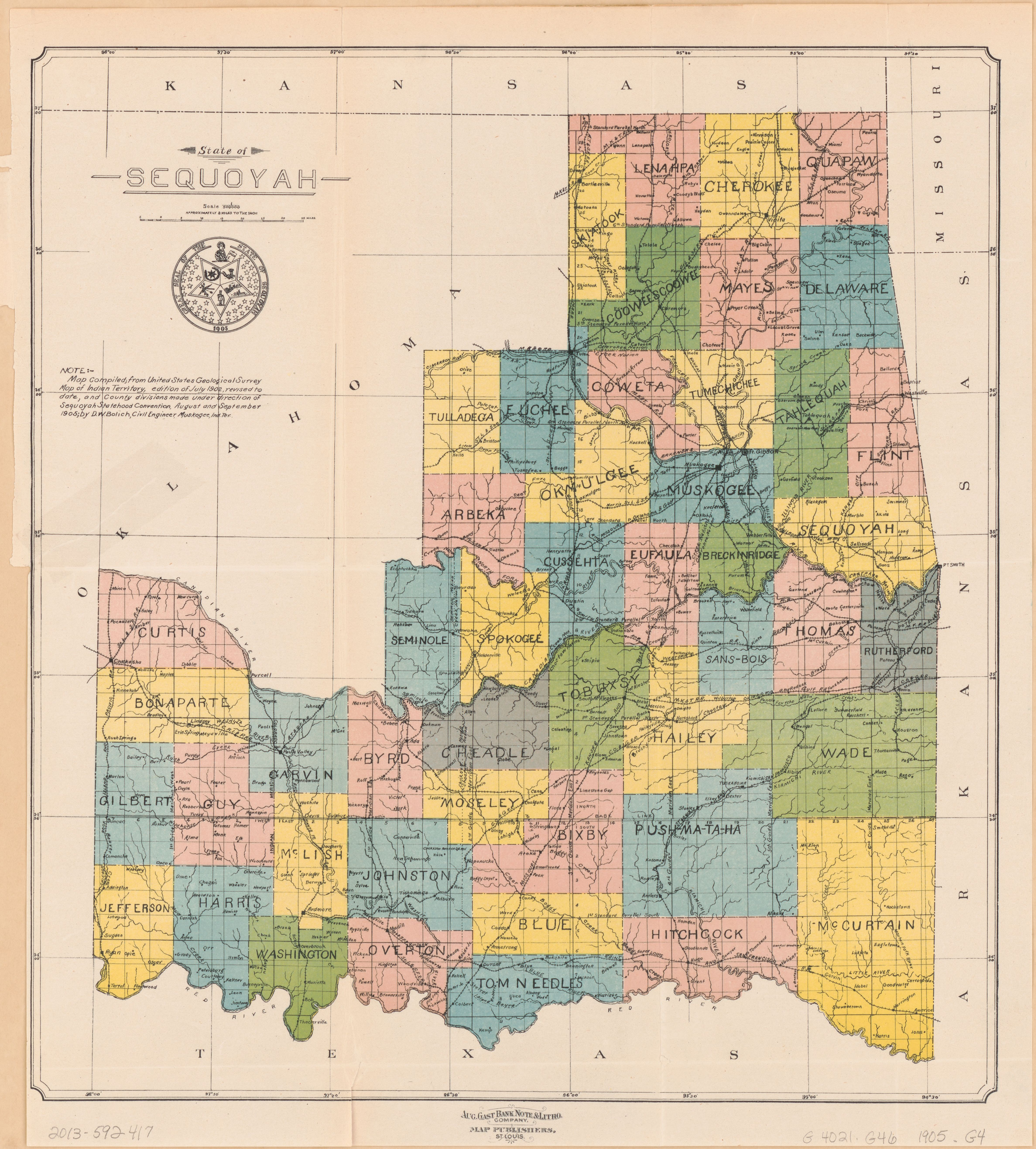 Shows names of land owners and railroads. Covers part of eastern Oklahoma. "Map of Indian territory, edition of July 1902, revised to date, and county divisions made under direction of Sequoyah Statehood Convention, August and September 1905; by D.W. Bolich, Civil Engineer, Muskogee, Ind. Ter." Available also through the Library of Congress Web site as a raster image. Acquisitions control no.: 99-6 AACR2